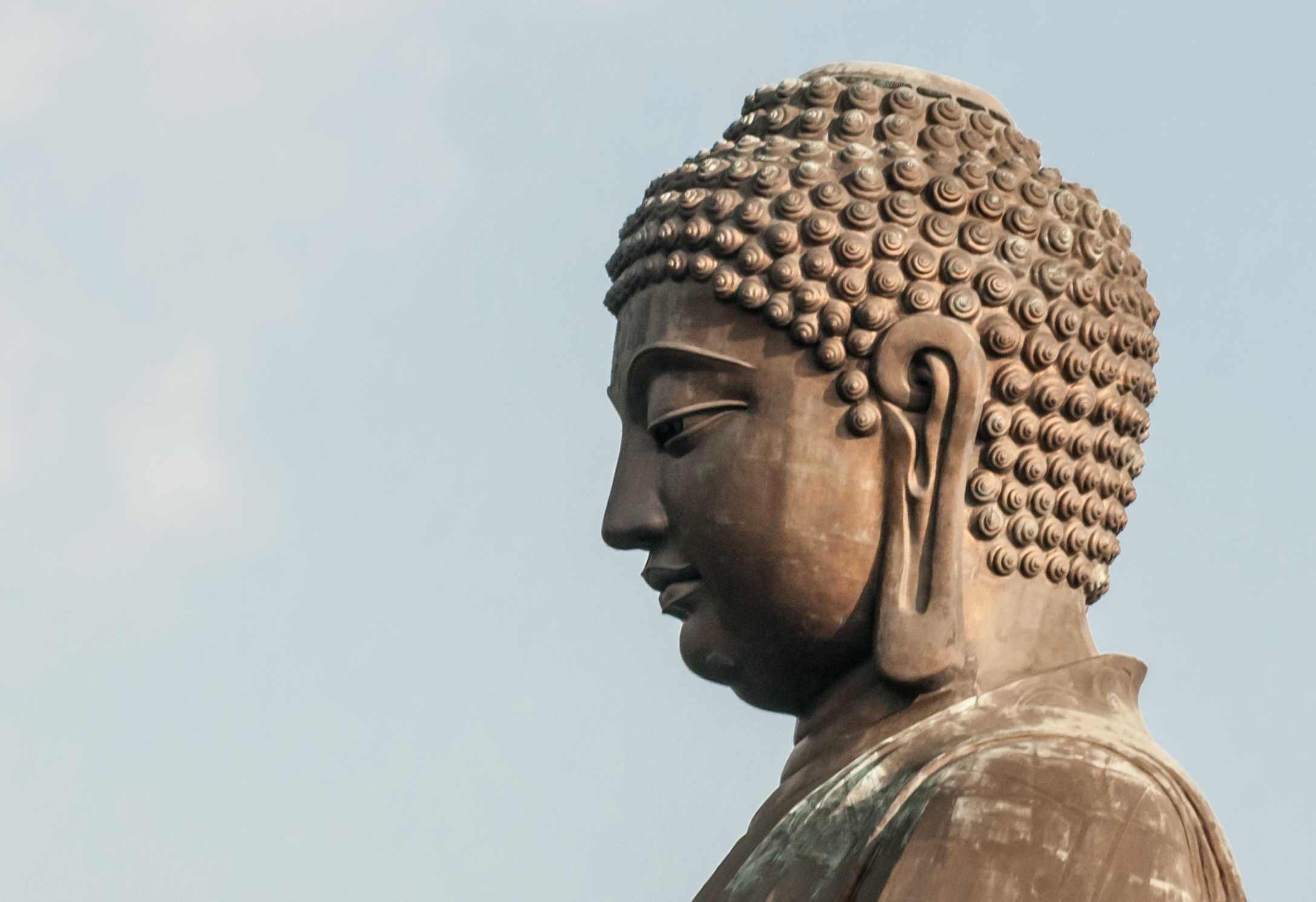 Budha Tian Tian in Hong Kong